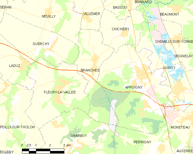 Map of French municipality Branches